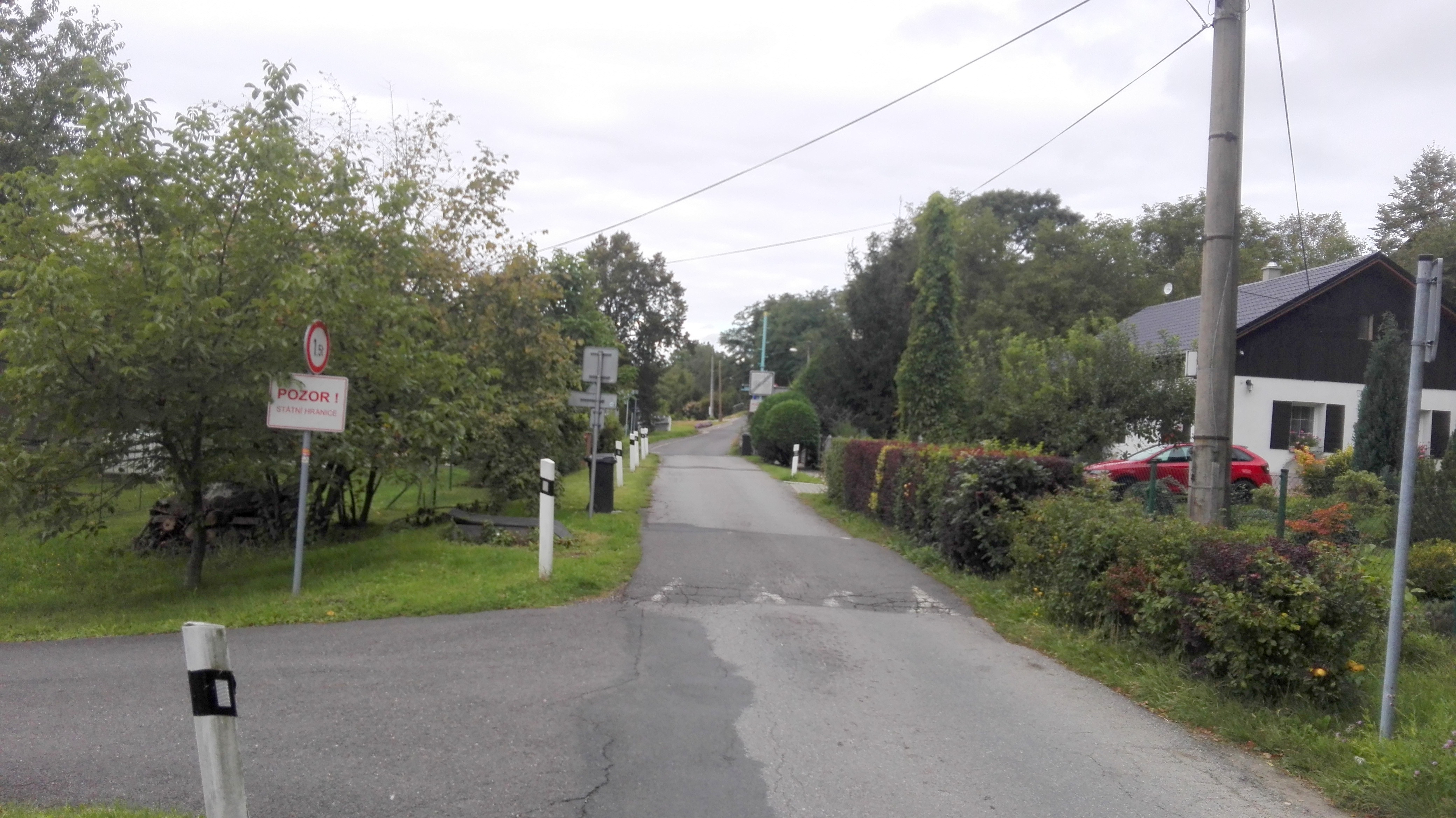 Skrbeńsko-Petrovice u Karviné border crossing